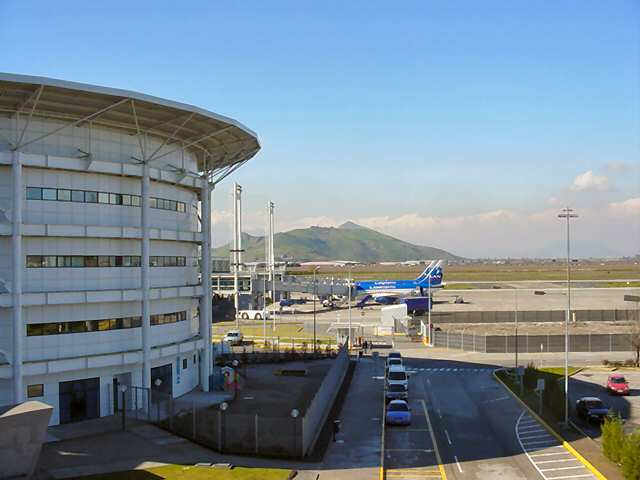 View of the Arturo Merino Benítez International Airport, Santiago, Chile.